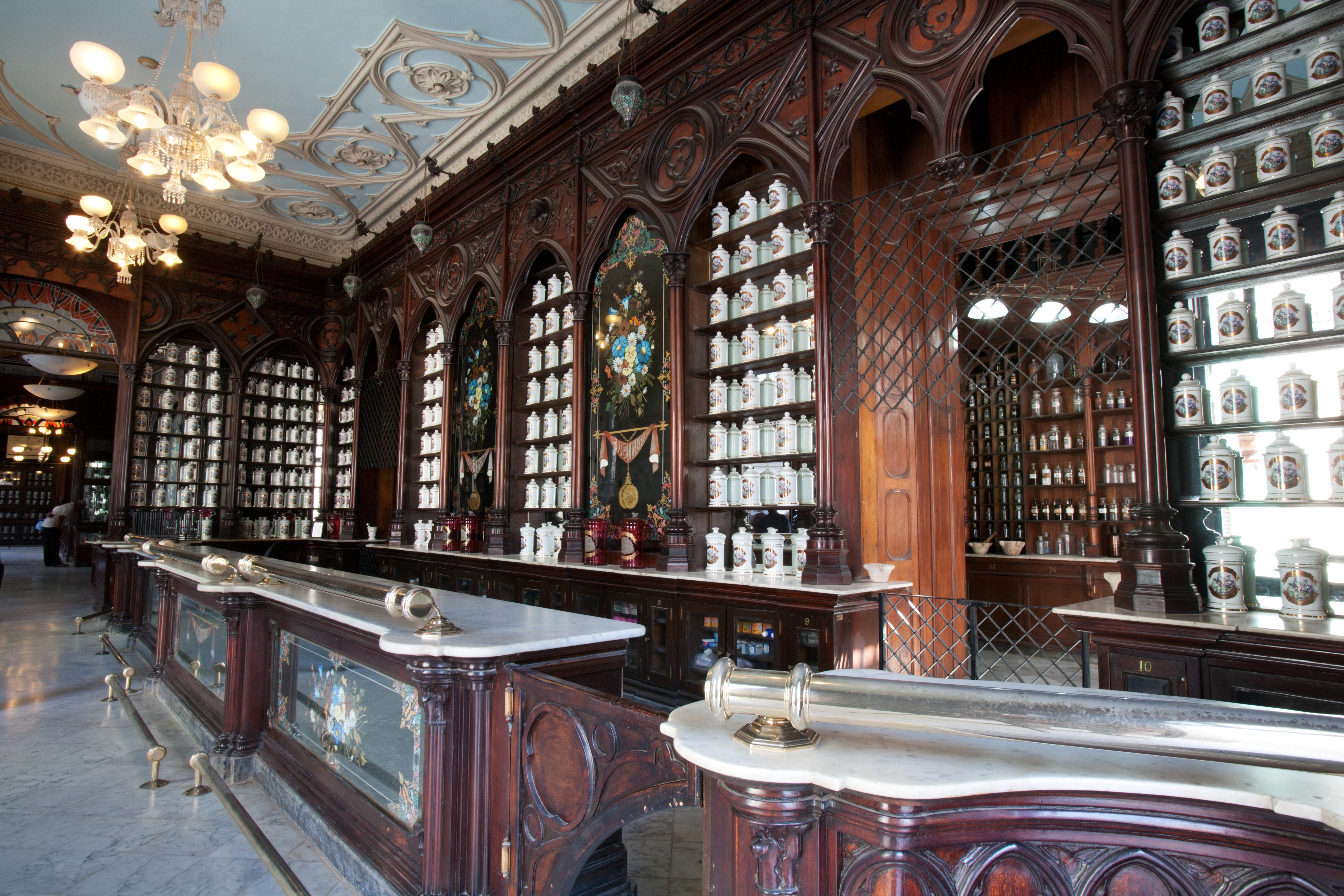 Old Sarra Pharmacy. Havana (La Habana), Cuba